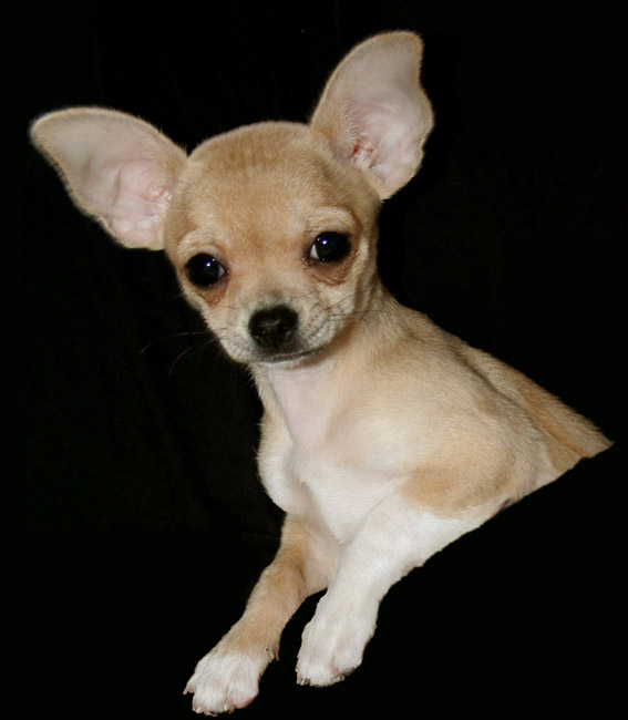 Chihuahua short hair (puppy)